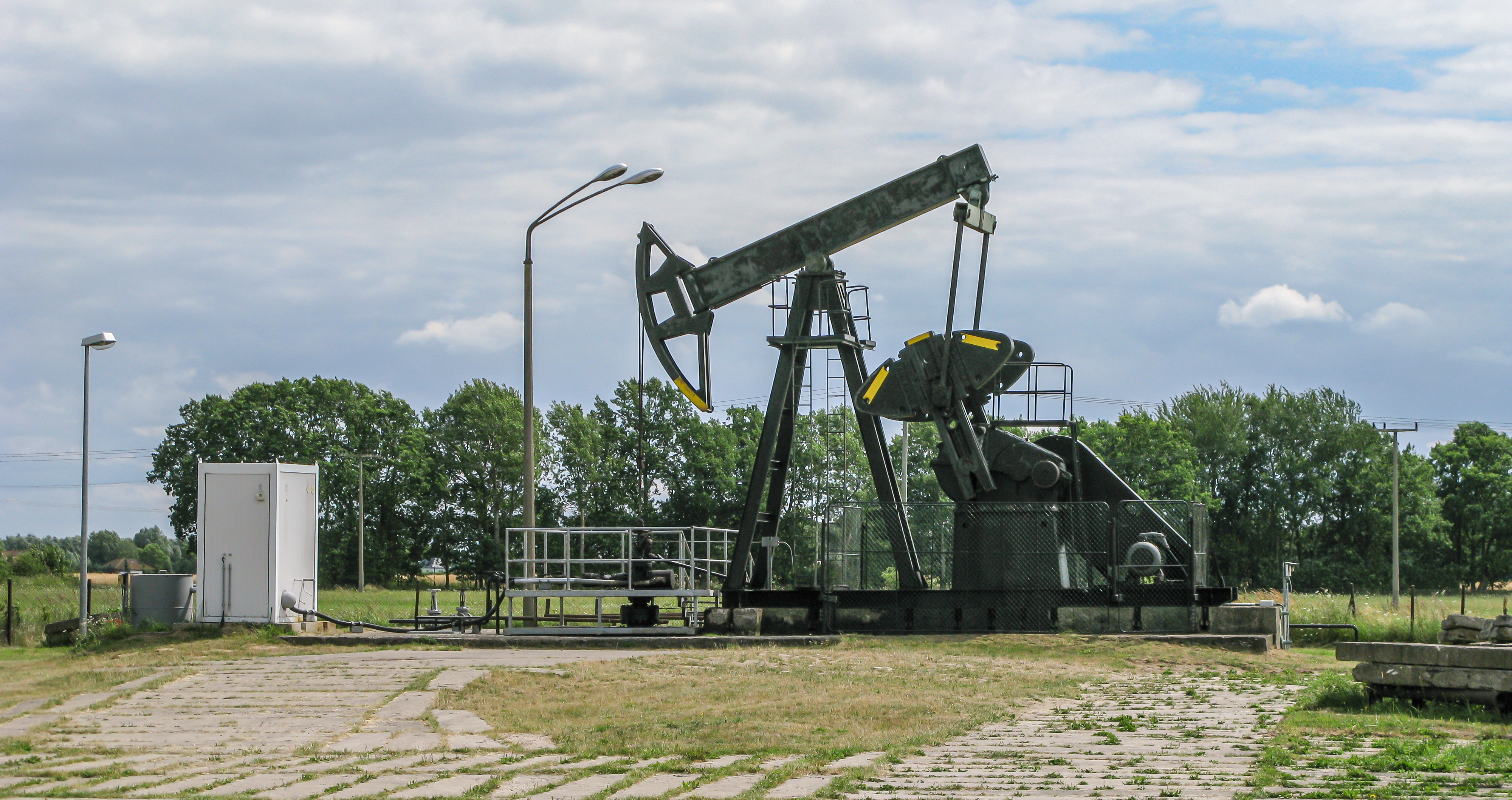 Oil pump on the peninsula Gnitz (Usedom), Germany